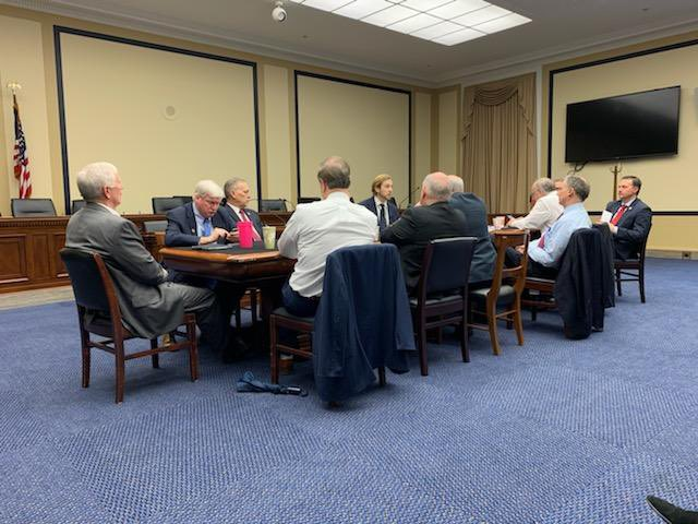 This week, the Border Security Caucus met with White House officials to discuss how the federal government can best secure the border & enforce our immigration laws. We’re pleased to be working w/ President @realDonaldTrump to help keep the promises we made to our constituents.